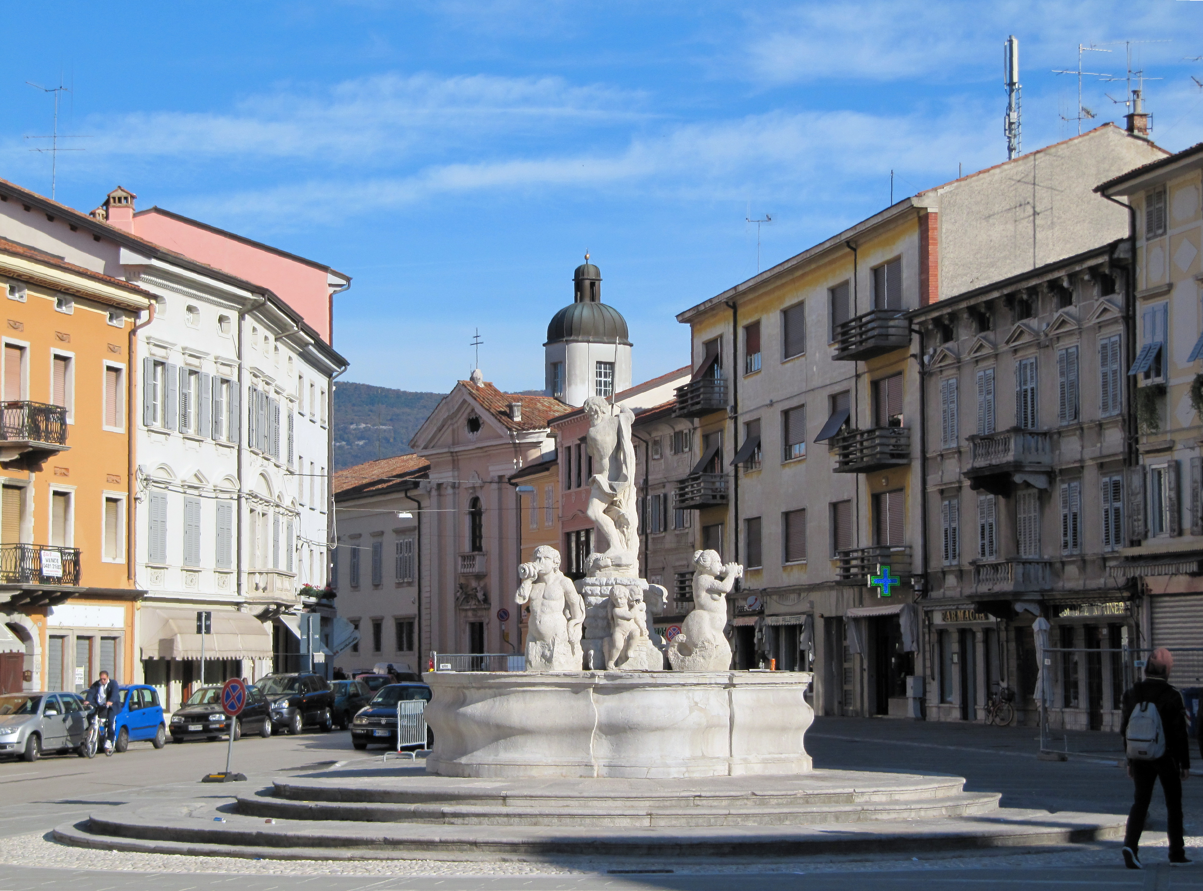 Victory square in Gorizia, Italy.